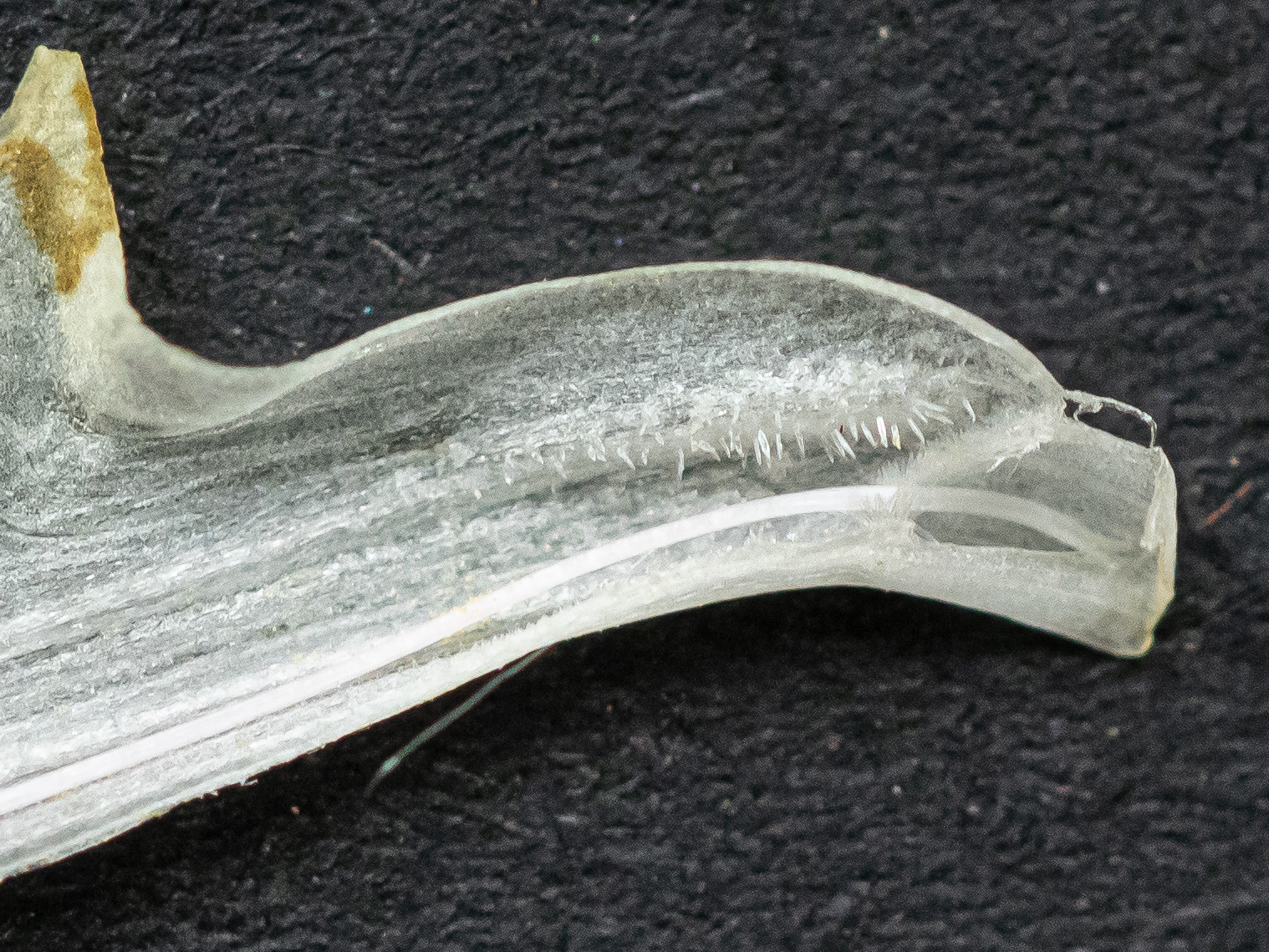 "Lamium album